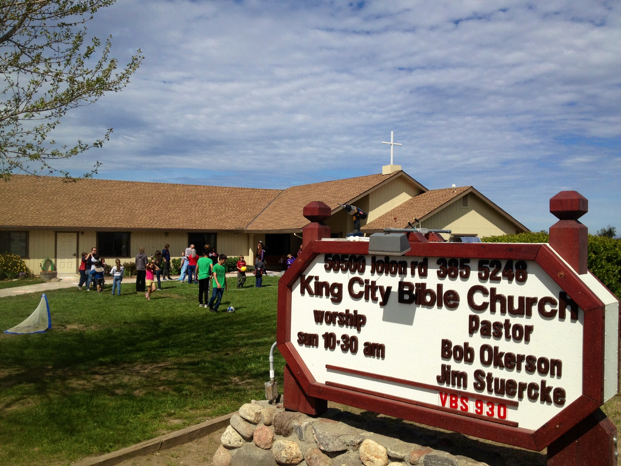 King City Bible Church